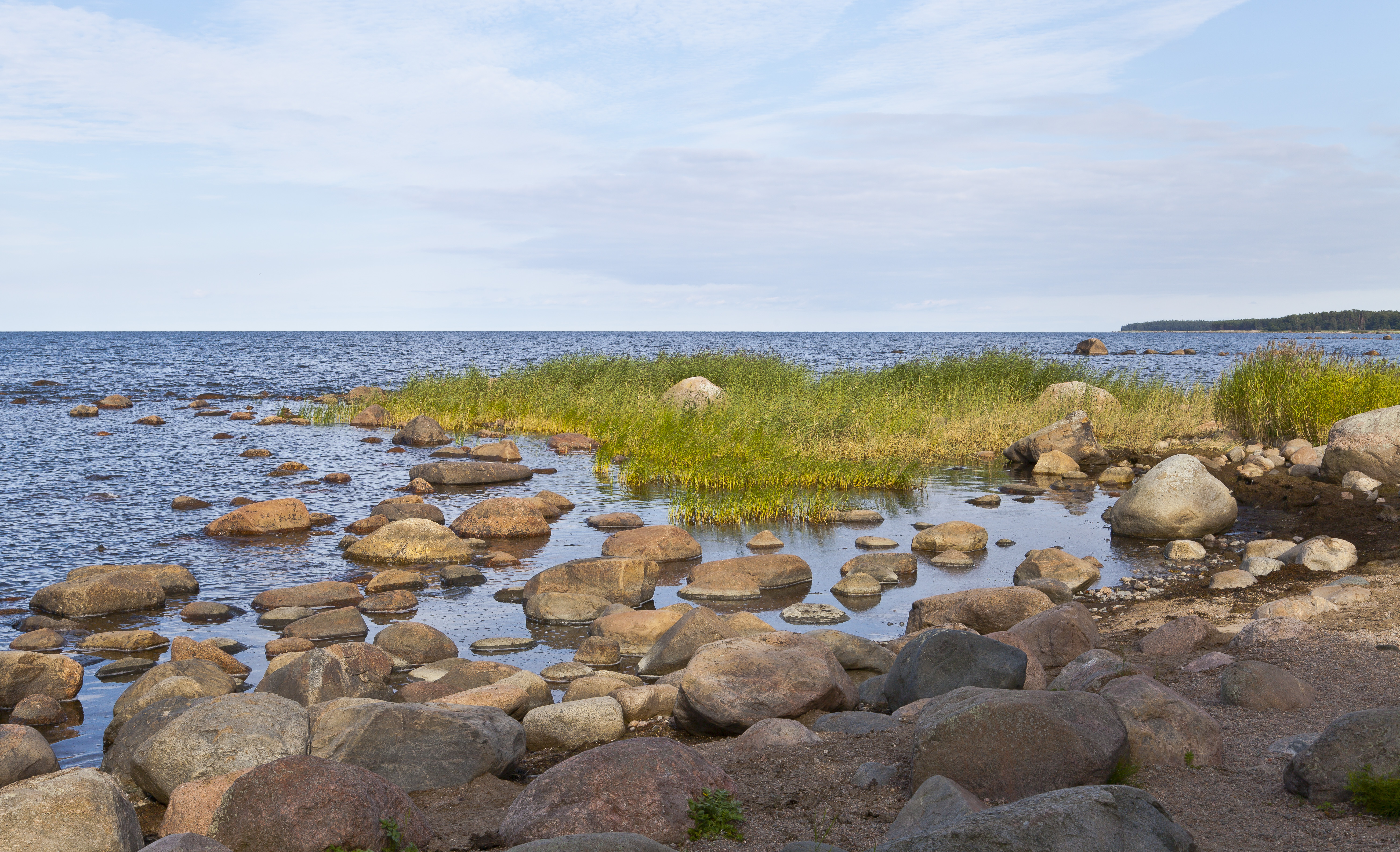 Altja, Lahemaa National Park, Estonia